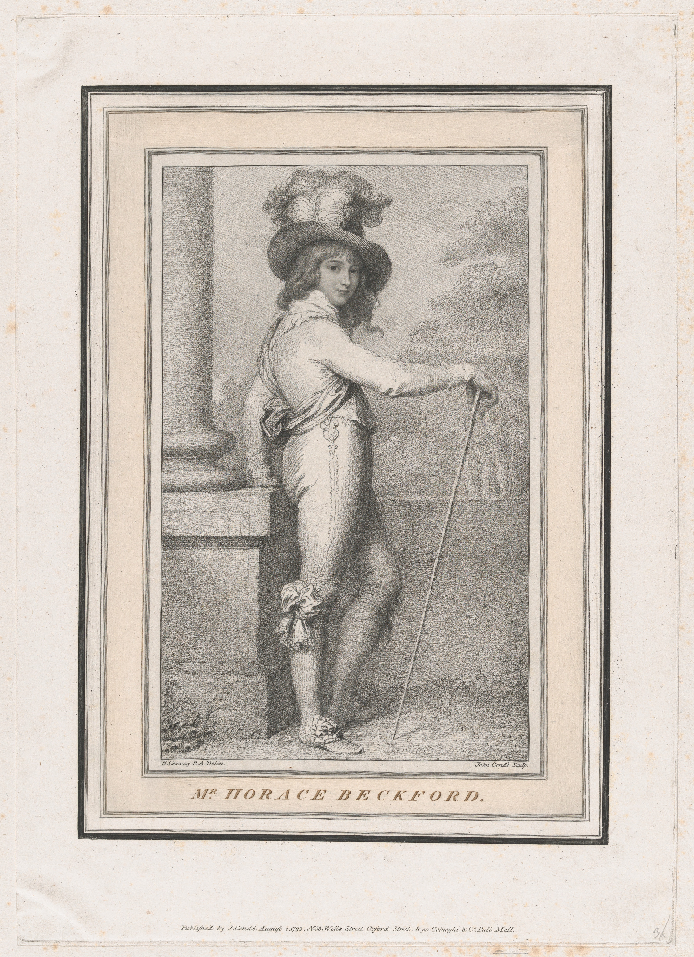 Print; Prints